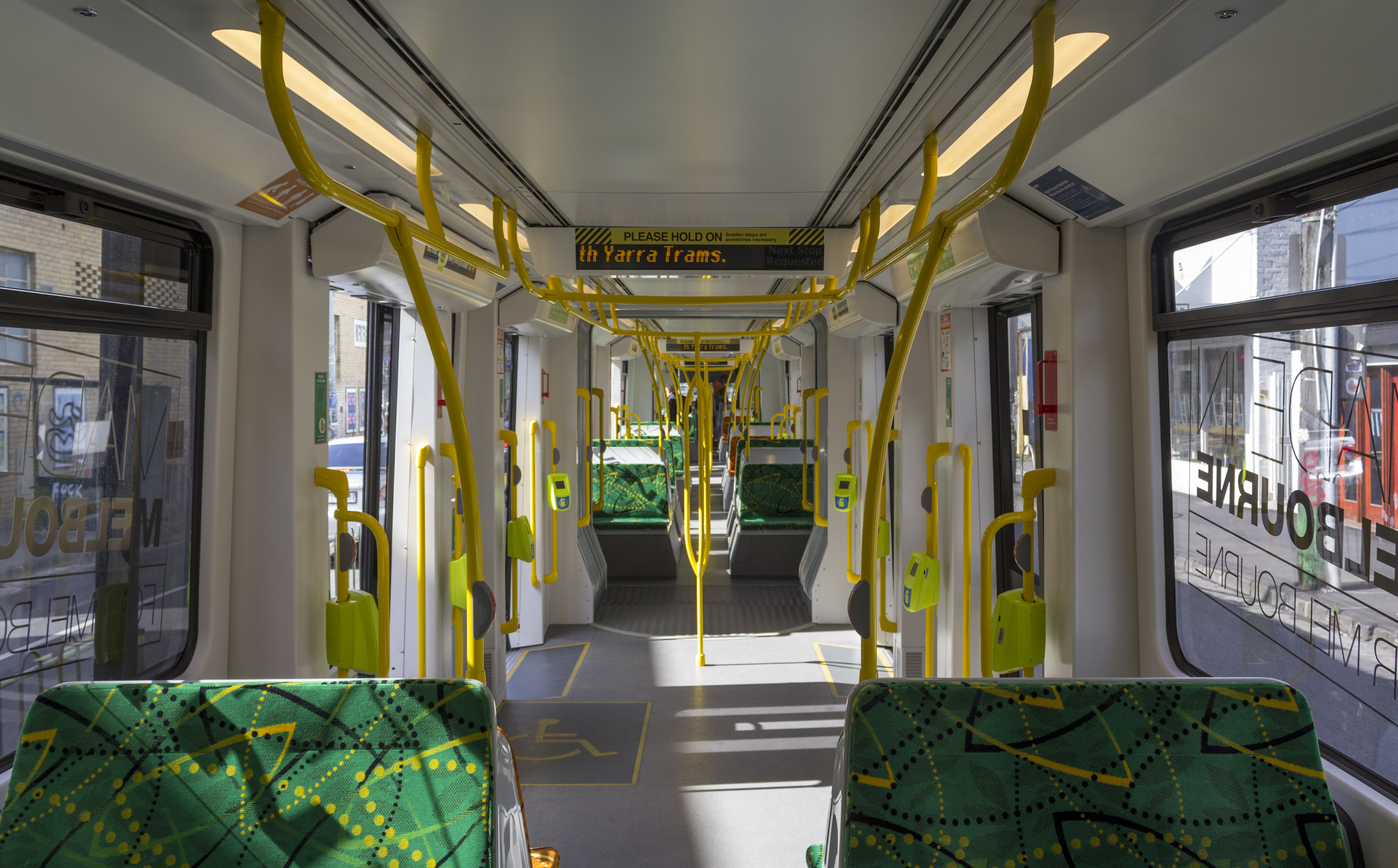 E-class Melbourne tram interior, 2013.